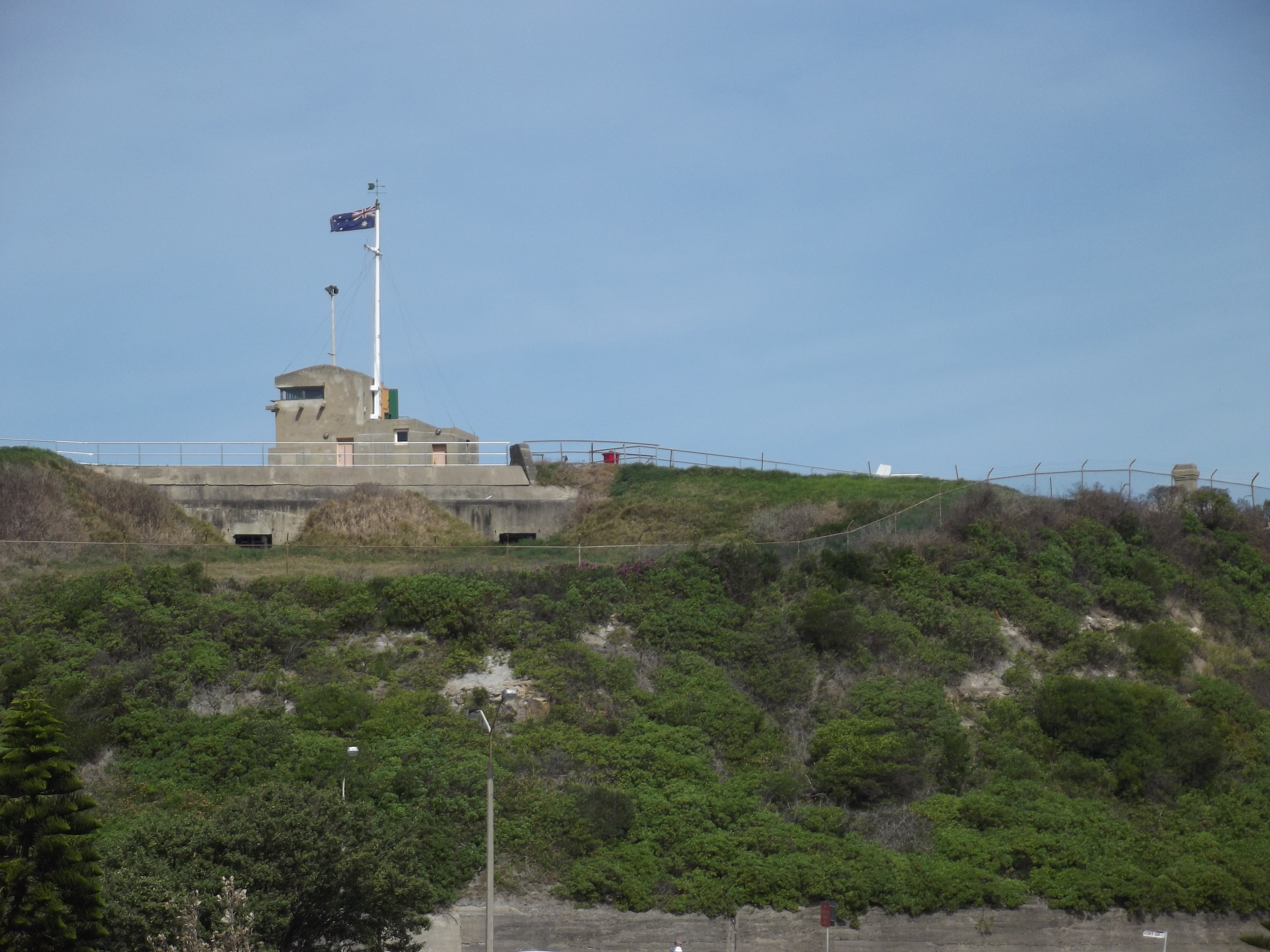 Fort Scratchley, Newcastle. The Fort guns were used during World War II when a Japanese submarine attempted to enter Newcastle Port.